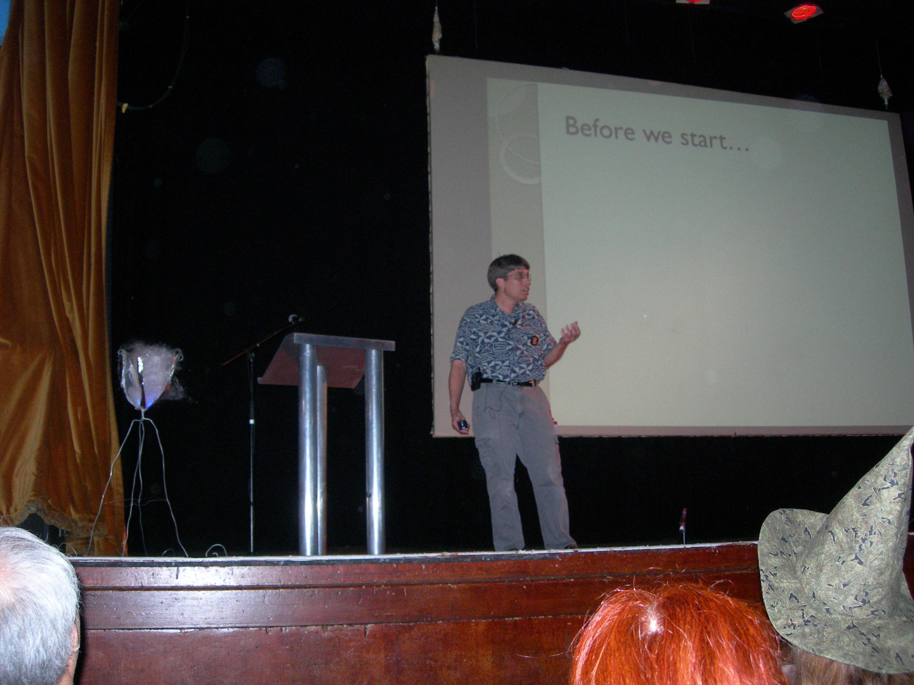 Steve Vander Ark speaking at Sectus Harry Potter conference, London, 2007